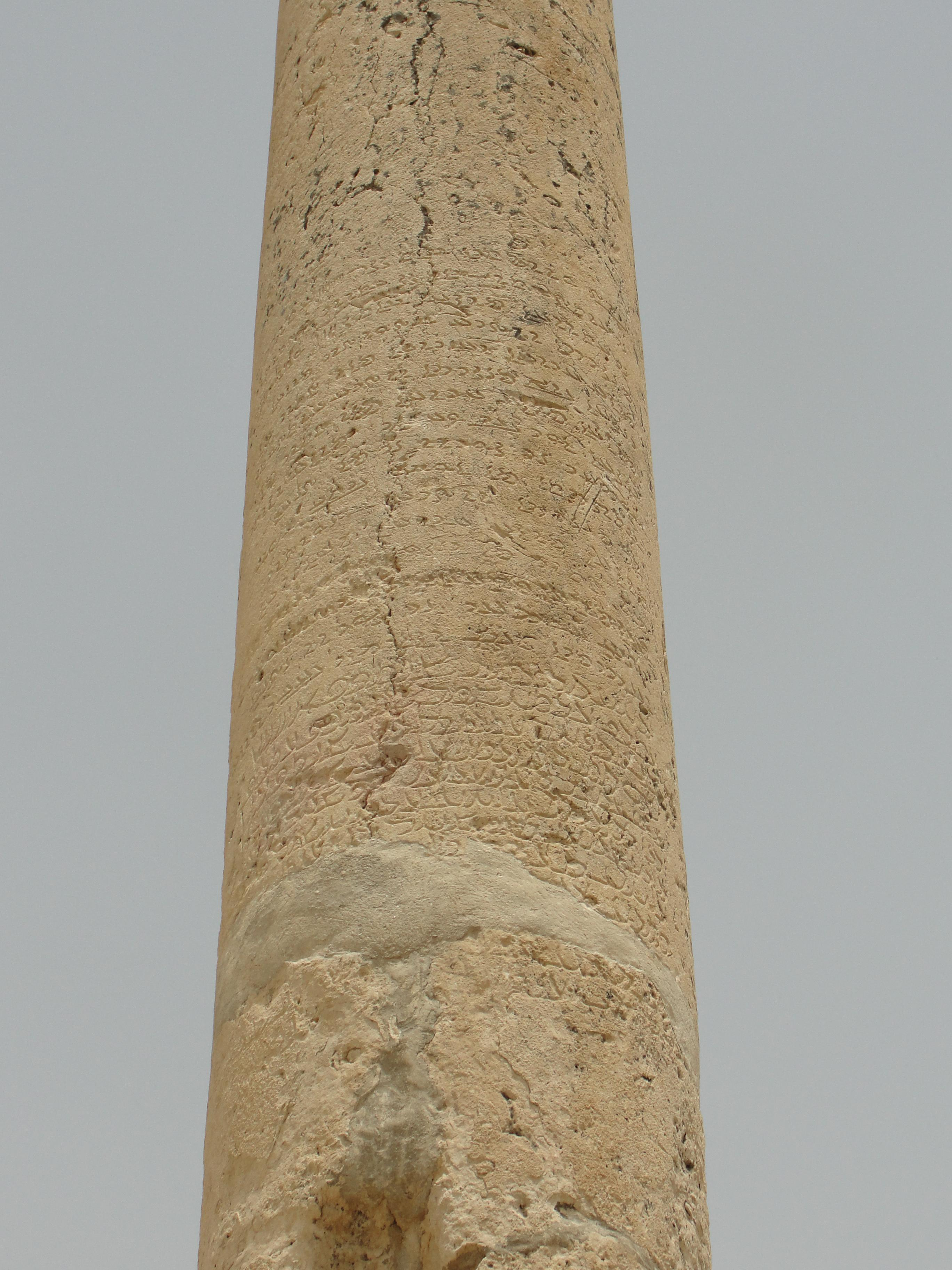 A Sassanid text.